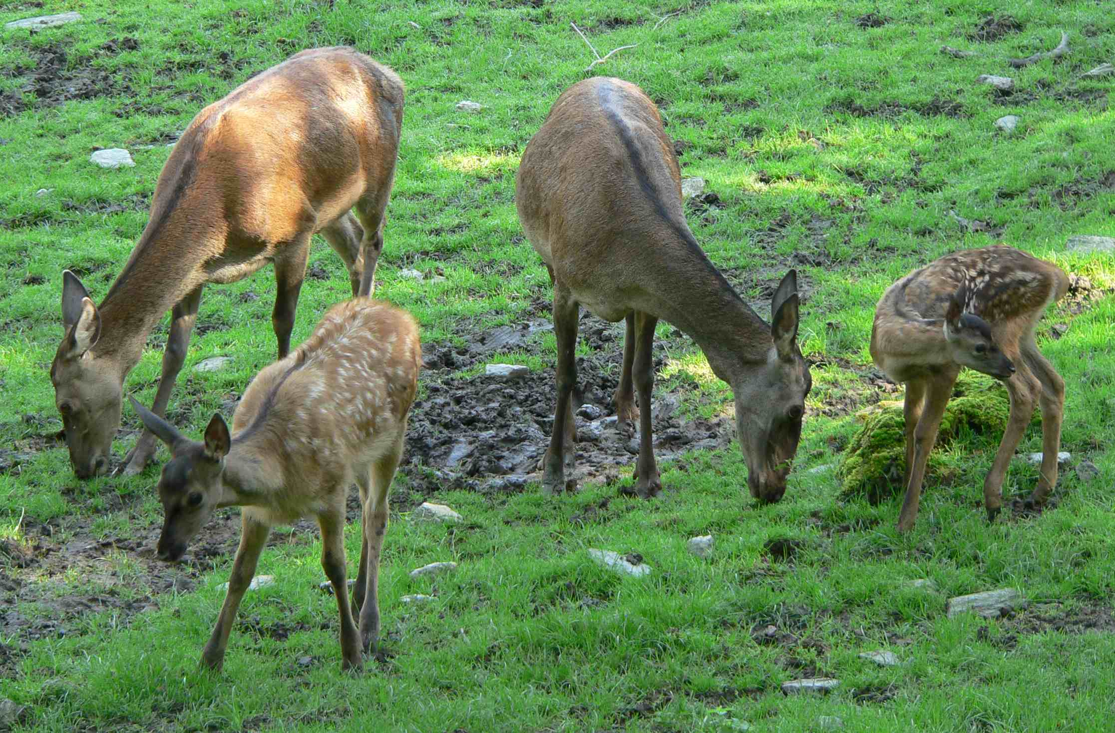 Cervus elaphus, small group of females with fawns